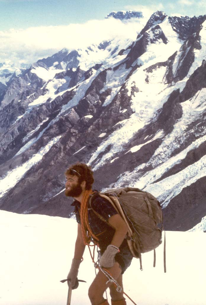 A mountaineer on the upper Tasman Glacier (New Zealand) in 1974, with Aoraki / Mount Cook in the background